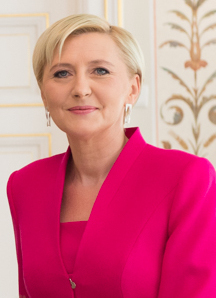 First Lady Melania Trump and First Lady Agata Kornhauser-Duda | July 6, 2017 (Official White House Photo by Andrea Hanks)